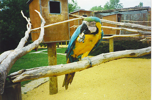 Ara ararauna at Birdworld, SW of Farnham. A theme park with a large collection of birds from around the world - popular with children.